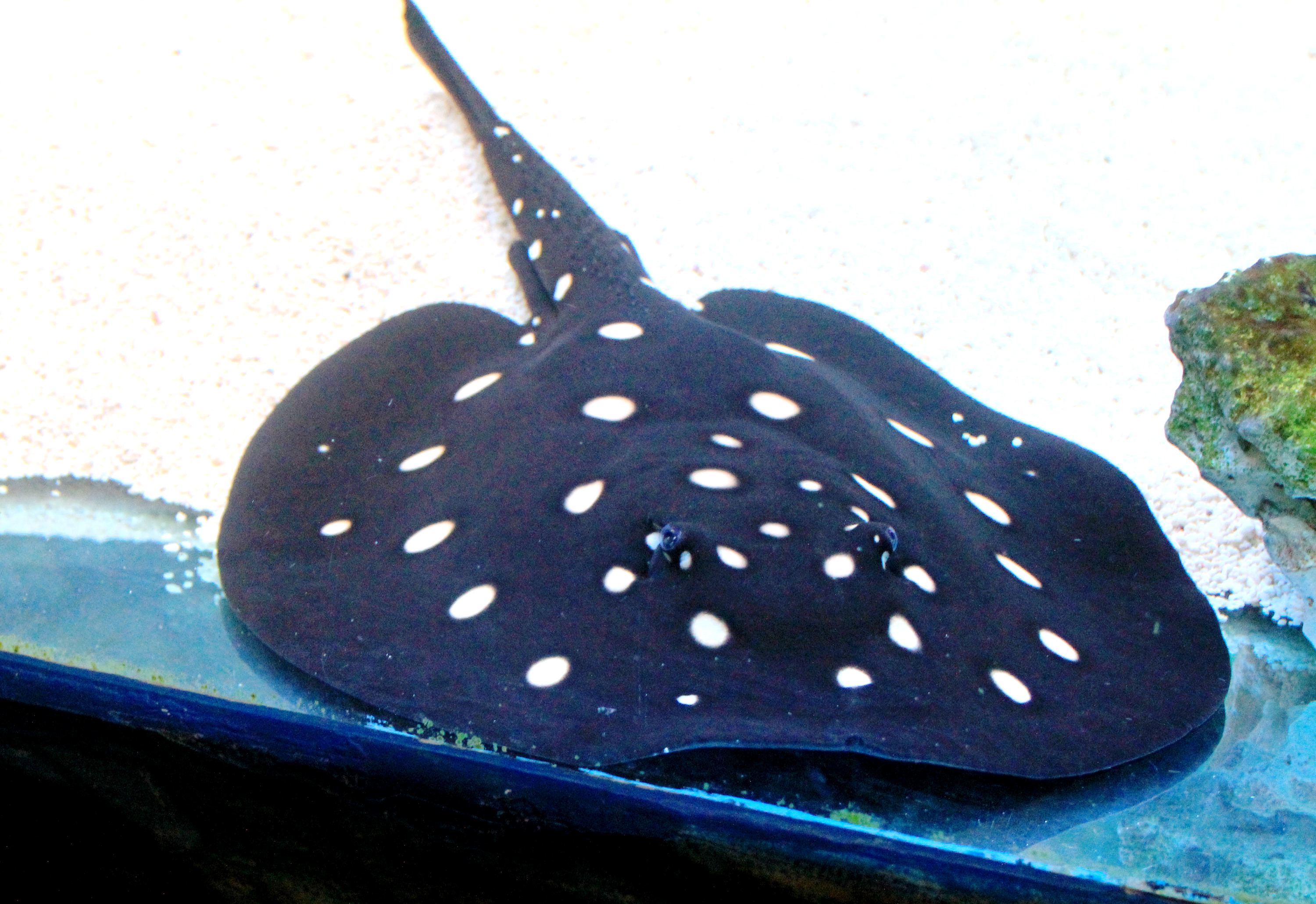 Fish Xingu River ray (Potamotrygon leopoldi) in Prague sea aquarium “Sea world”, Czech Republic